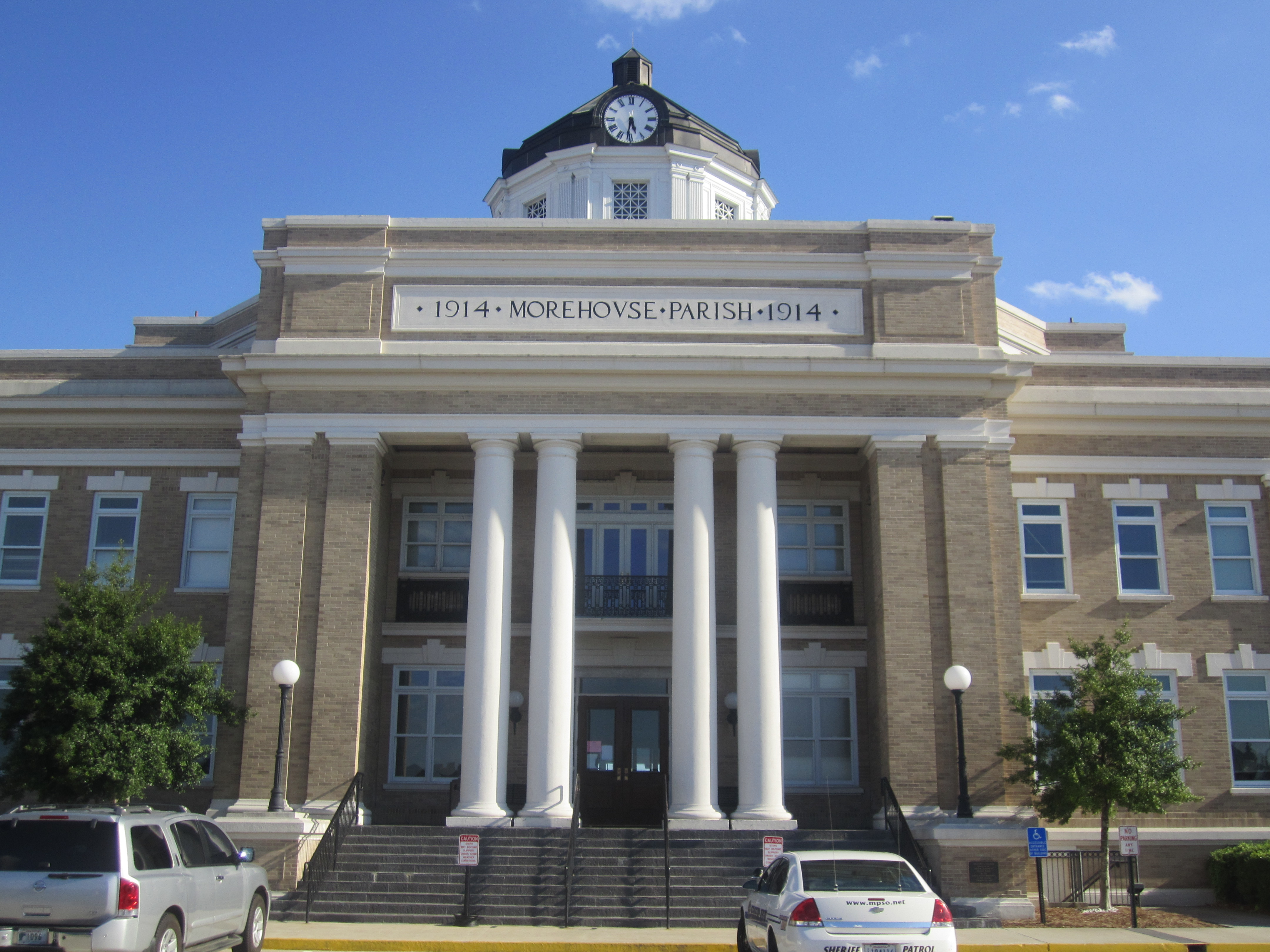 I took photo with Canon camera in Bastrop, LA, of the Morehouse Parish Courthouse from the front.